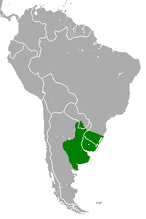 Akodon azarae range map Source